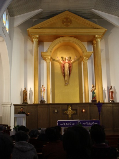 shanghai_st.peter's_catholic_church